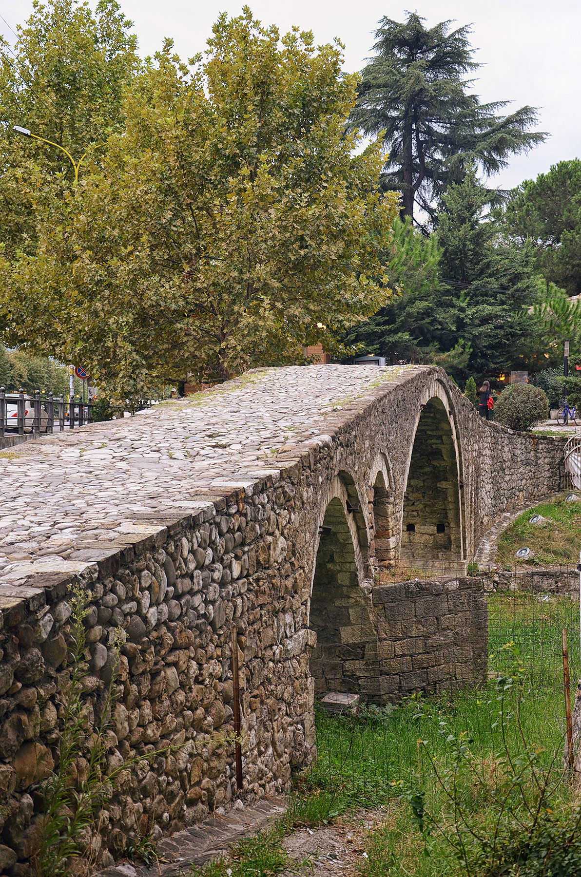 The Tanners' Bridge in Tirana, Albania